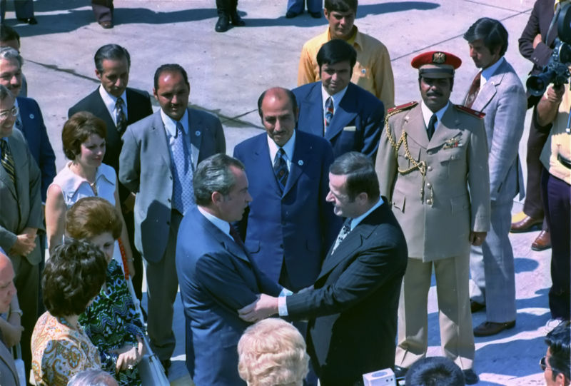 U.S. President Richard Nixon greets Syrian President Hafez al-Assad in Damascus, 1973. From the booklet "President Nixon and the Role of Intelligence in the 1973 Arab-Israeli War." For more information, visit